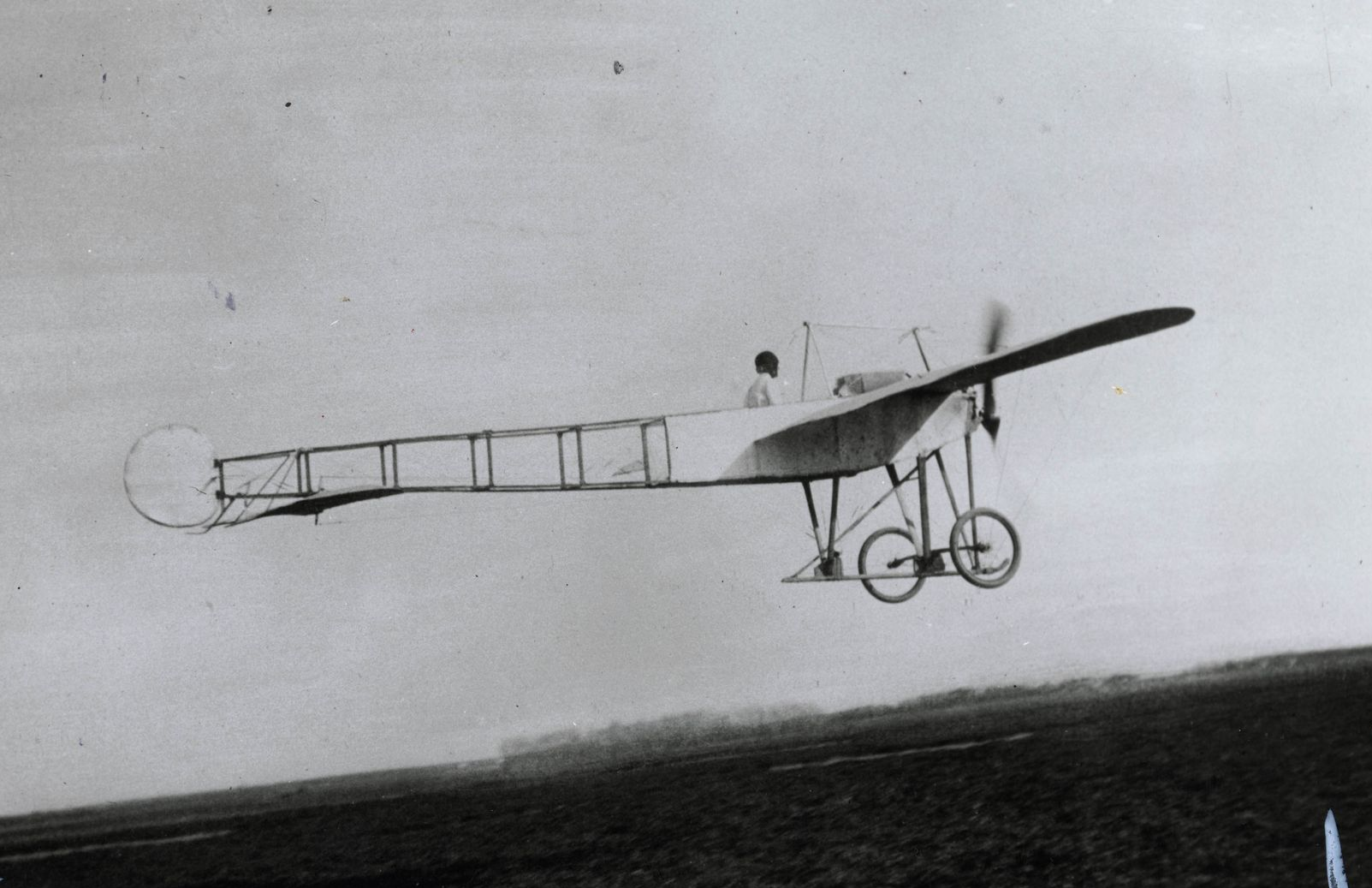 Cessna Silverwings experimental aircraft, being test-flown in 1911 by SGV Cessna, Clyde's brother.